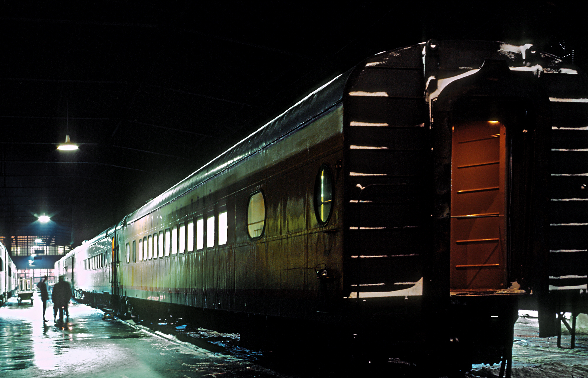 I have shown you many photos of Roger using light in many different ways. Here are 5 more. Equipment of Milwaukee Road Train 15, the former Olympian Hiawatha at the Minneapolis, Minn. station: 2 coaches, working RPO, and one baggage car on January 27, 1968.